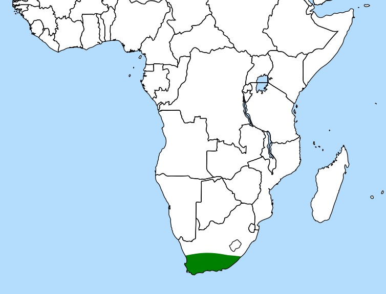 Roridula Distribution Detail